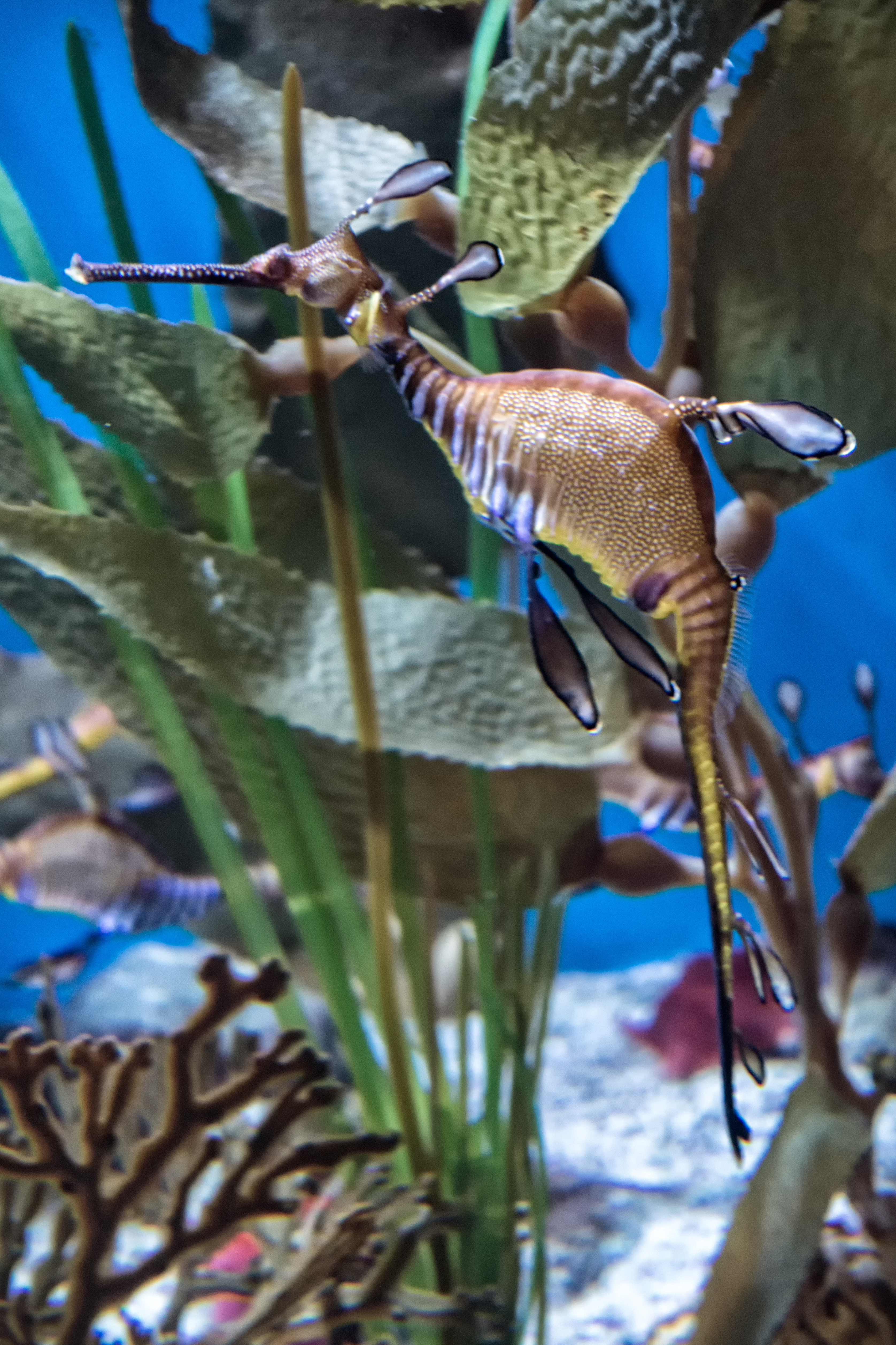 Weedy Sea Dragon